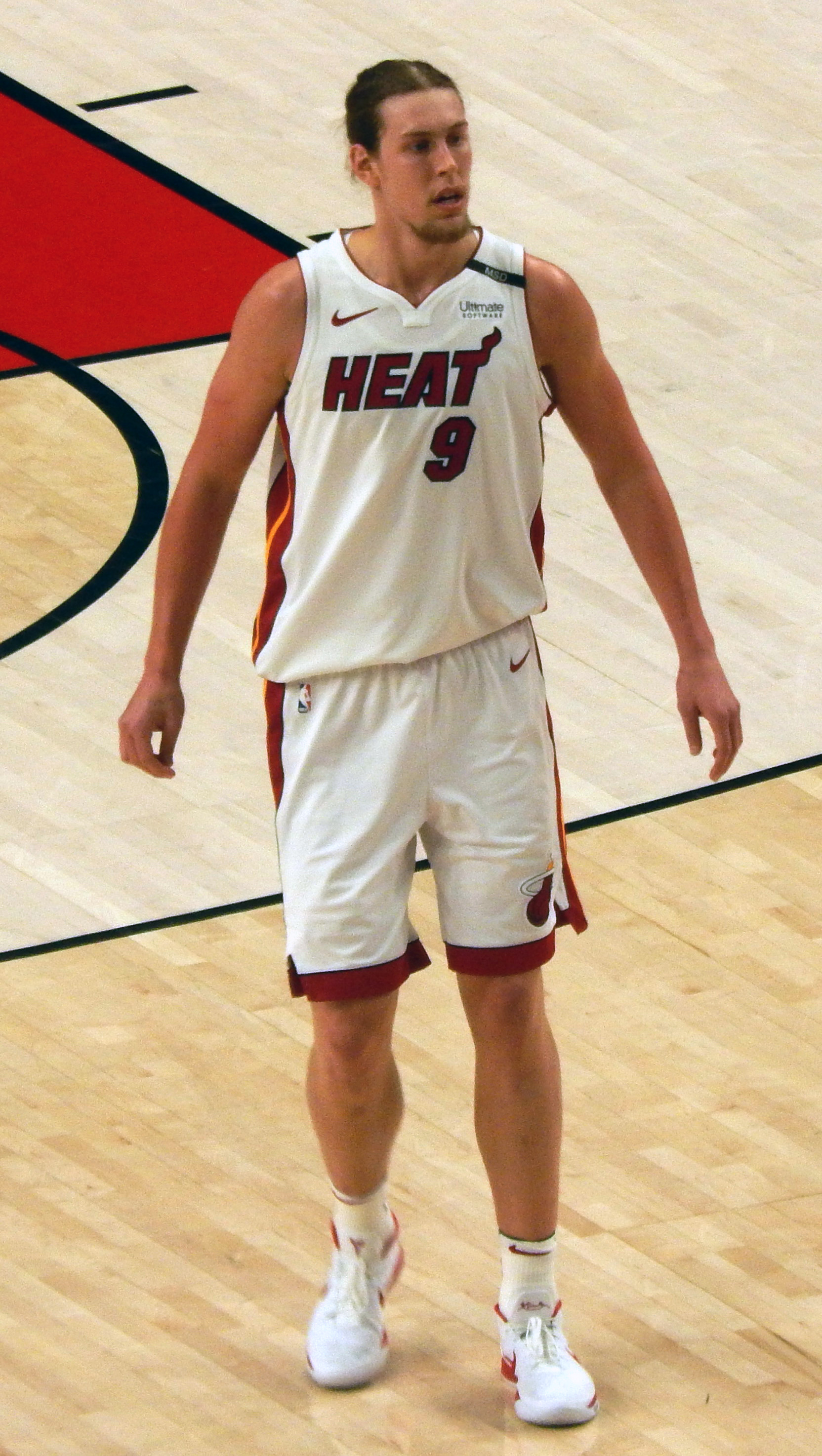 Kelly Olynyk #9 of the Miami Heat against the Portland Trail Blazers on March 12, 2018 at Moda Center in Portland, Oregon.